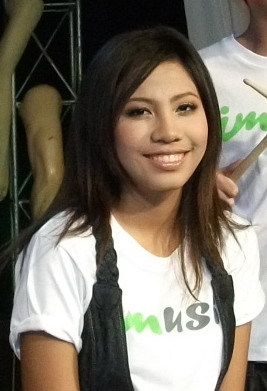 Yingman at MTV Fast Forward.